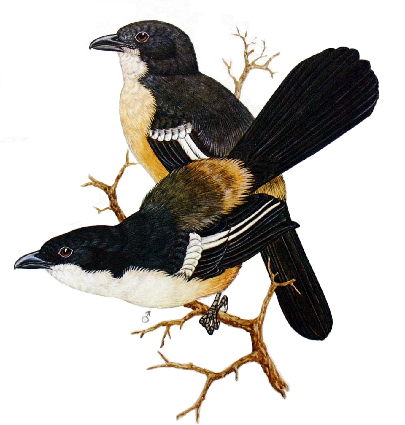 Male and female Southern Boubous